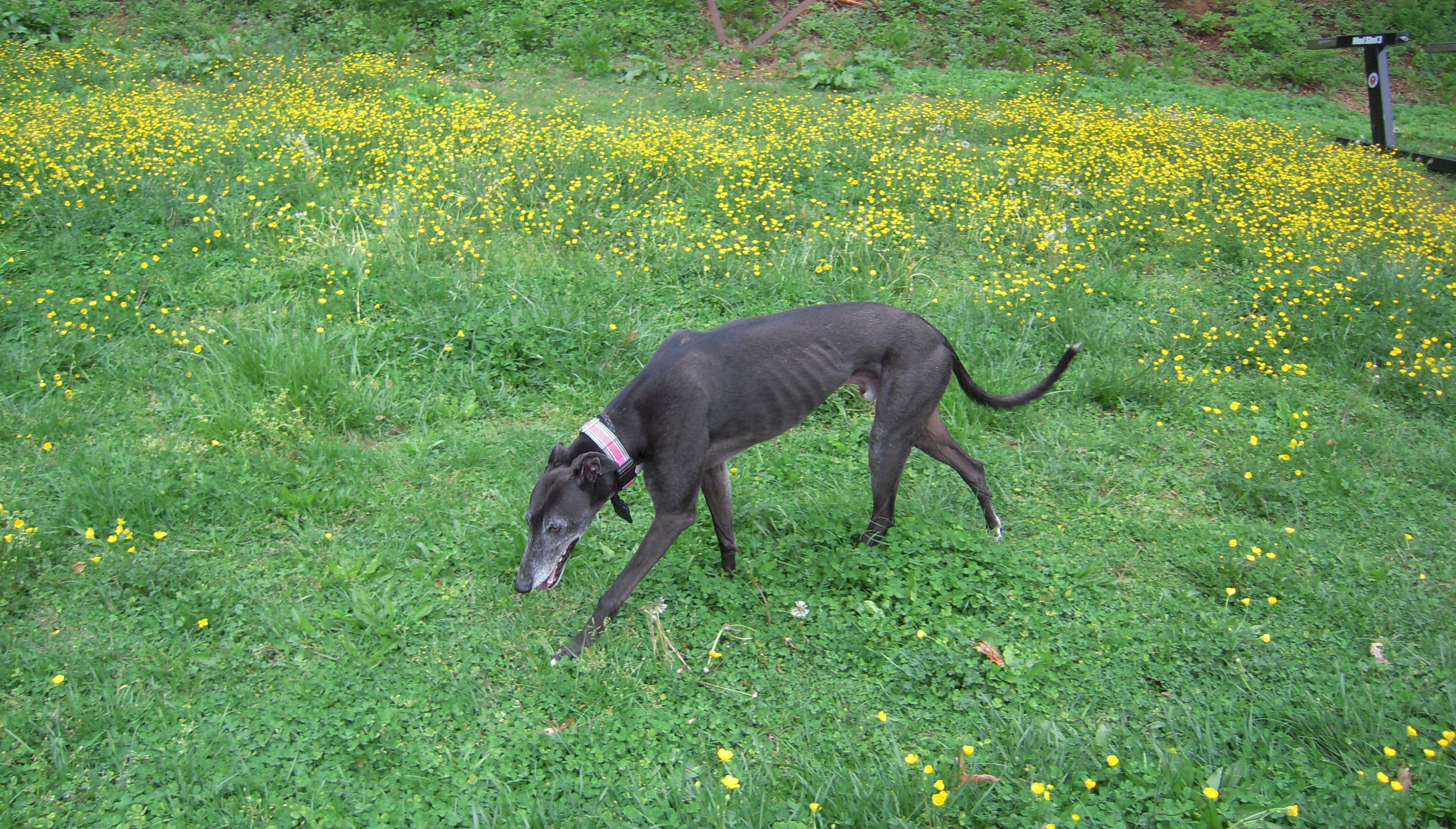 Salisbury Townsend